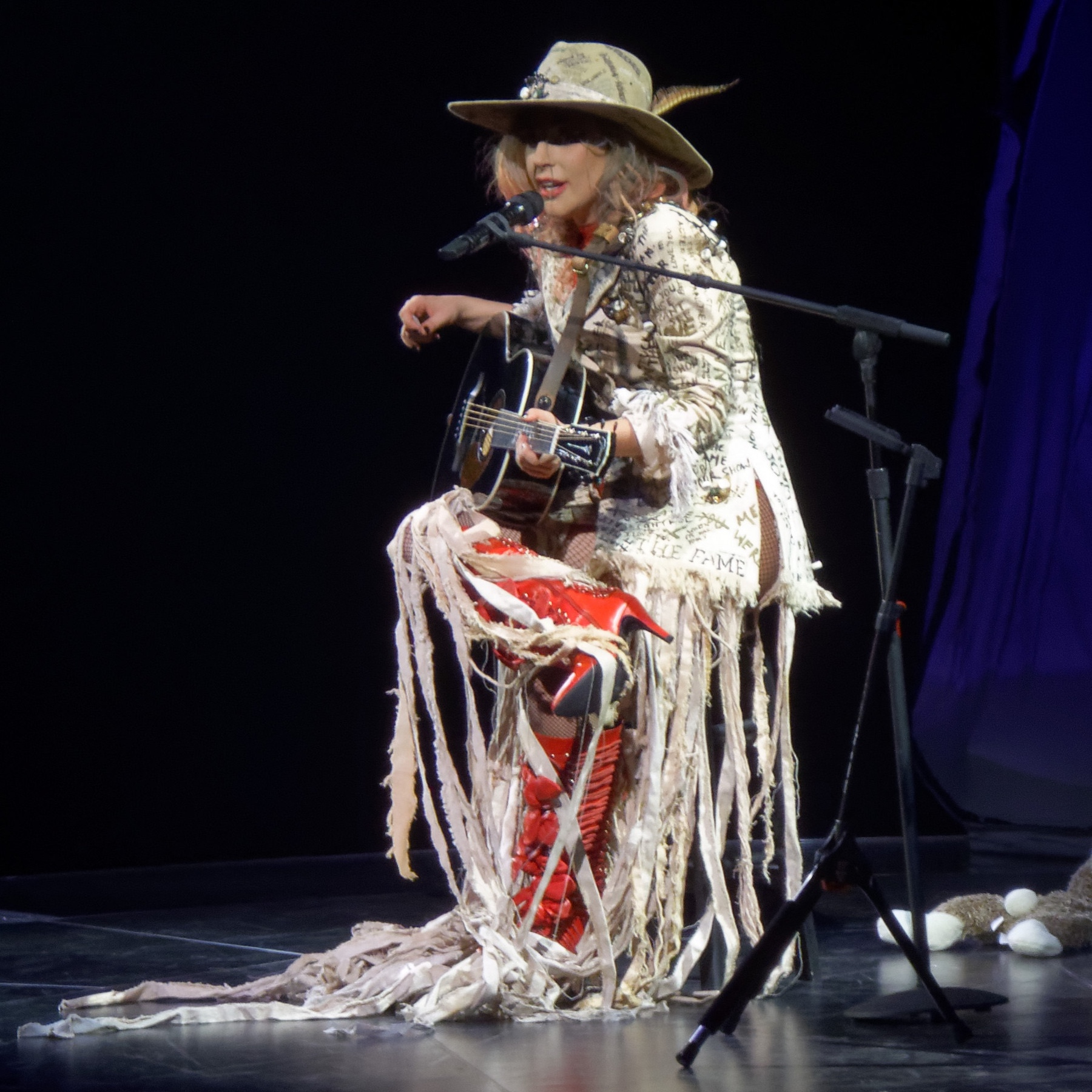 Lady Gaga performing her song, "Joanne" in Tacoma, during the Joanne World Tour.